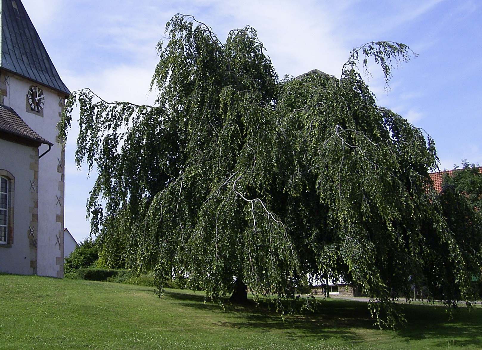 Species Fagus sylvatica Pendula Family Fagaceae